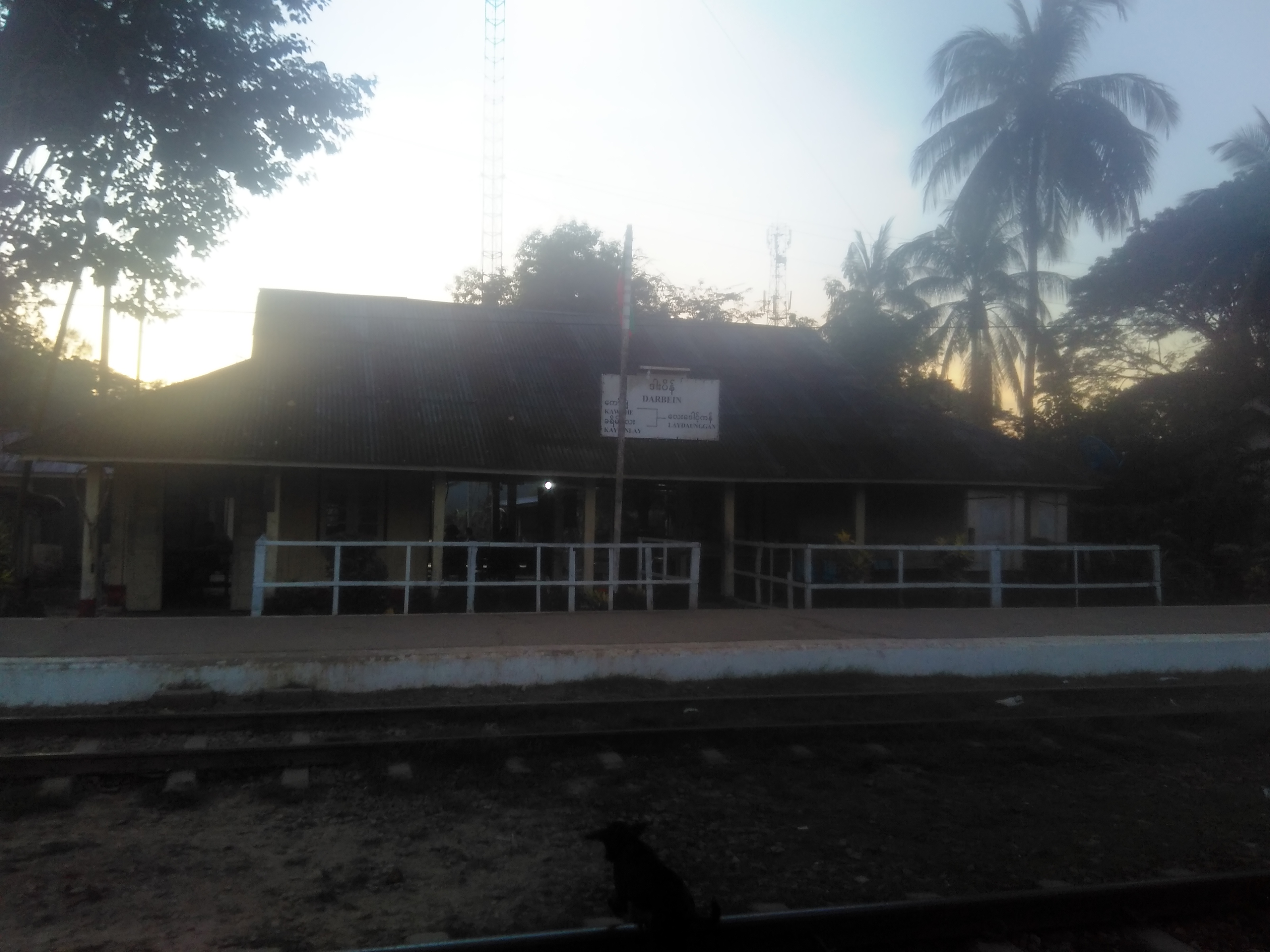 Railway tracks of Darbein Station မြန်မာဘာသာ: ဒါးပိန်ဘူတာရုံရှေ့ ရထားလမ်းကြောင်းမြင်ကွင်း